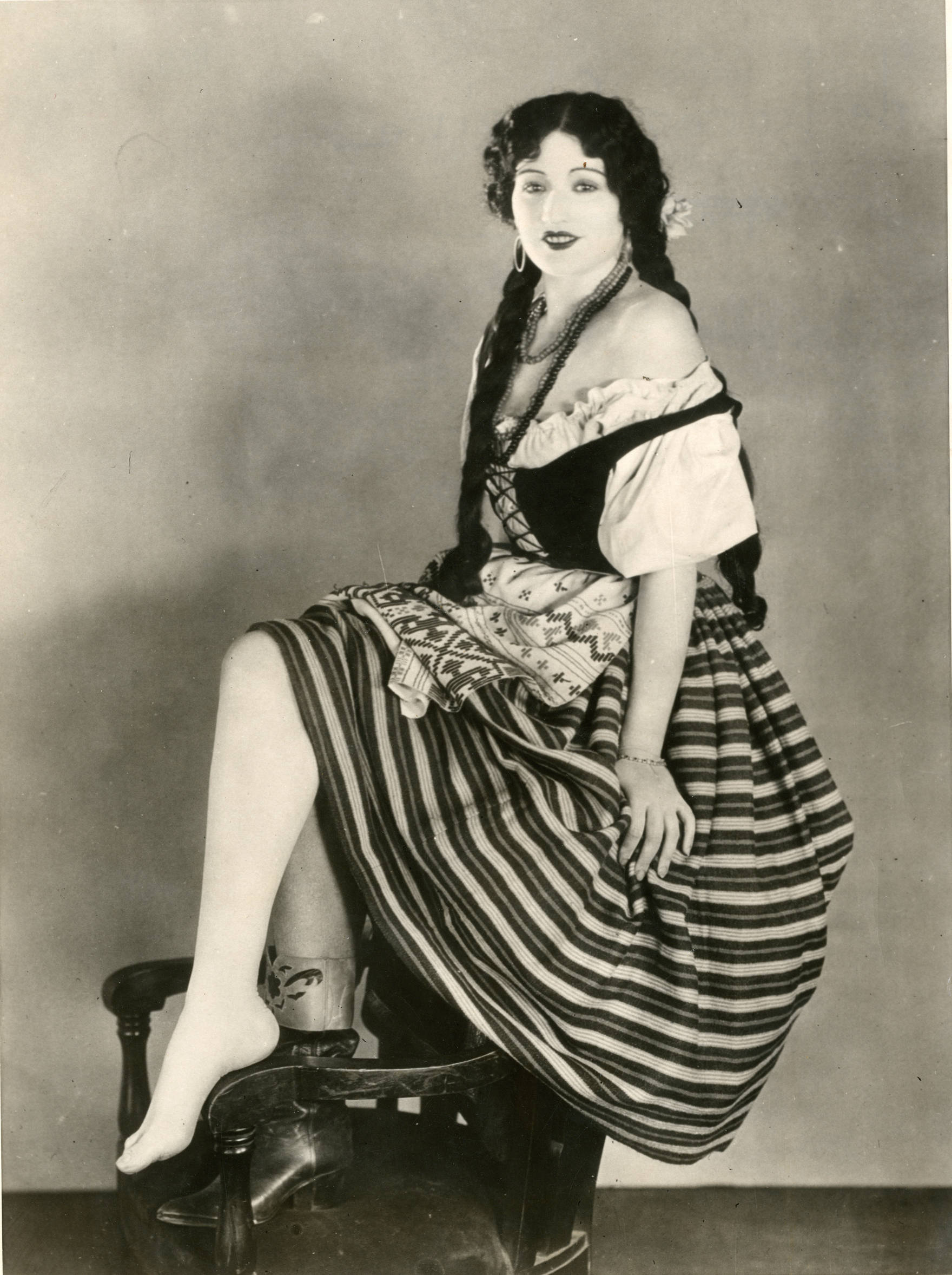 Film actress Claire De Lorez, from the American drama film Three Weeks (1924). Subjects: actresses